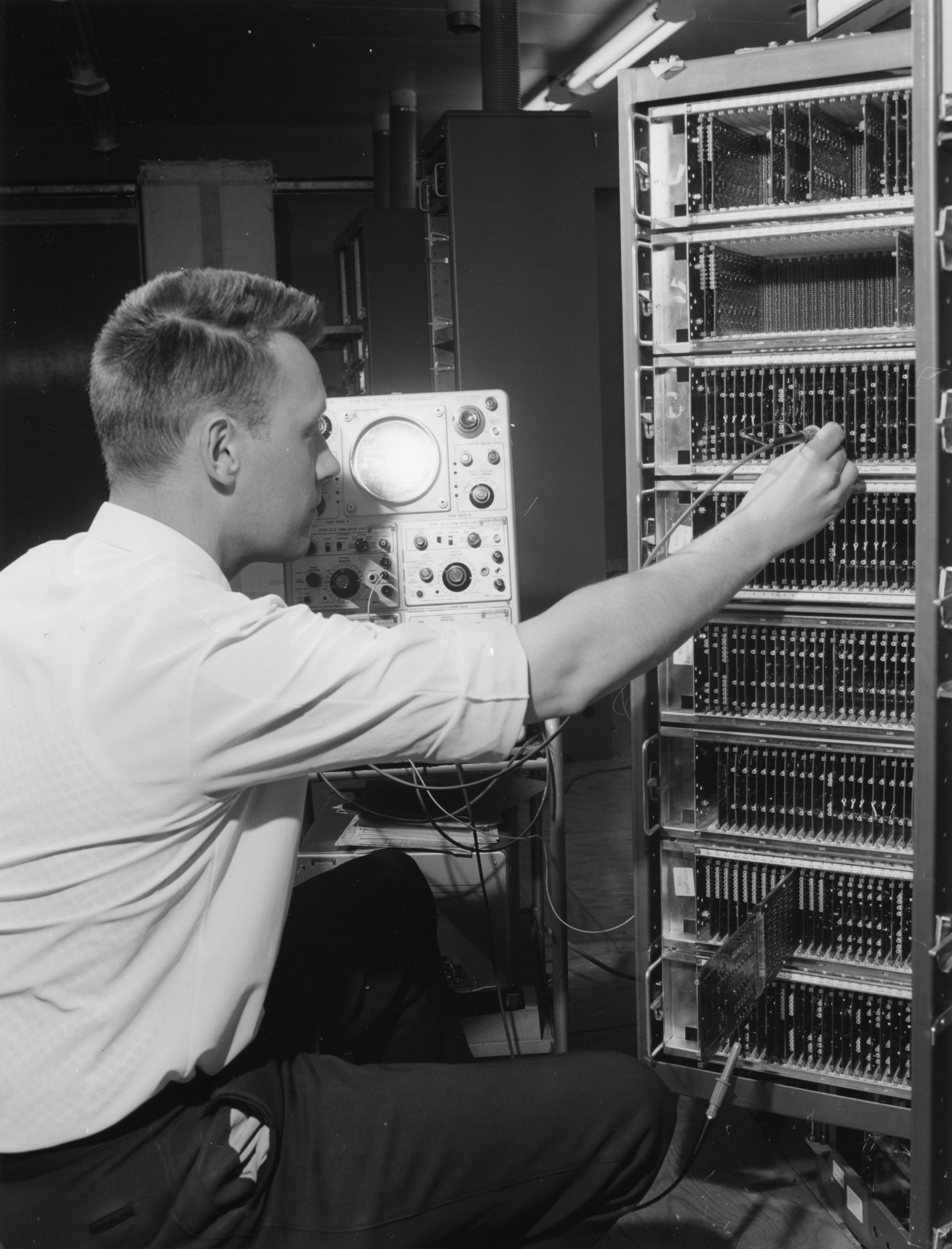 An operator trimming electronic calculation circuits on a Stansaab "Censor" computer at Standard Radio's factory in Ulvsunda, Stockholm.